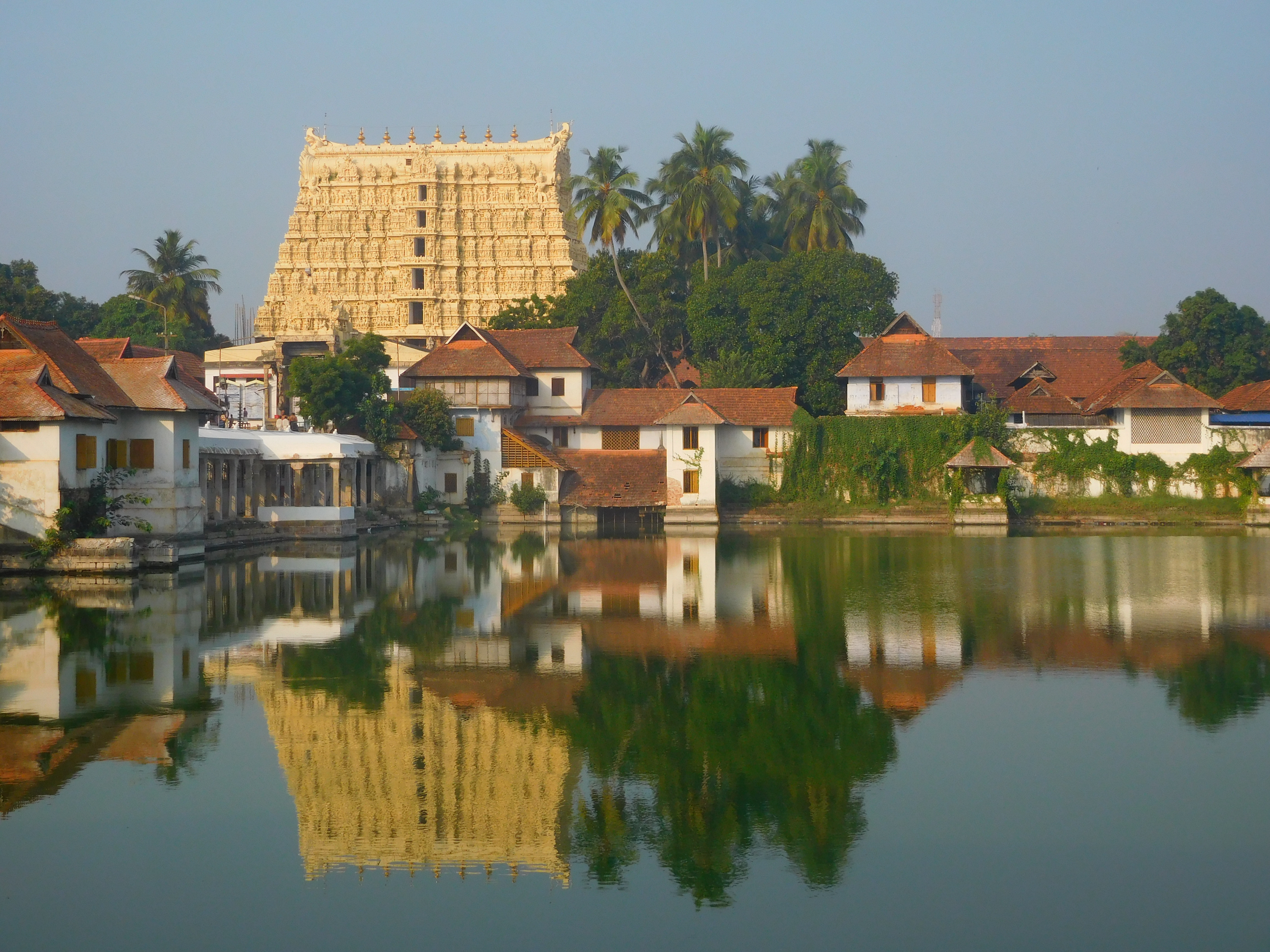 Sri Ananta Padmanābhasvāmi Temple in Thiruvananthapuram, Kerala, India